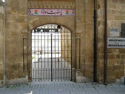 Mevlevi Museum in the Lefkosha-Turkish Republic of Northern Cyprus